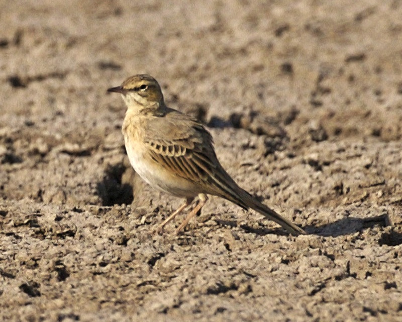 An overwintering Tawny pipit, photographed on 28th November 2006 at Rajkot, Gujarat, India